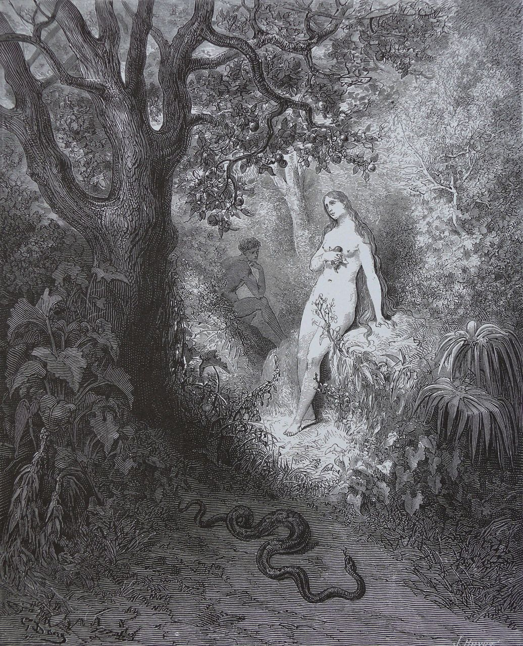 Illustration for John Milton’s “Paradise Lost“ by Gustave Doré